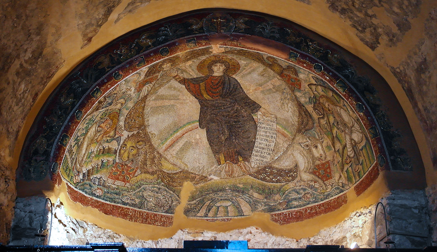 Mosaic in monastery of Latomou